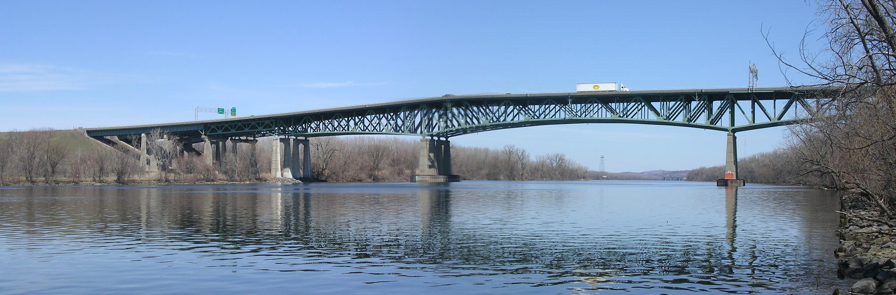 Location: Patroon Island Bridge over the Hudson River in Albany, New York Description: Looking North, up the Hudson River to the Patroon Island Bridge from just north of the boat launch in Rensselaer, New York. April 11, 2006